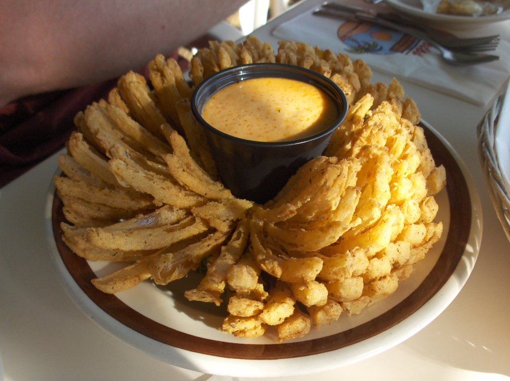 Scotty's Steak House blooming onion.